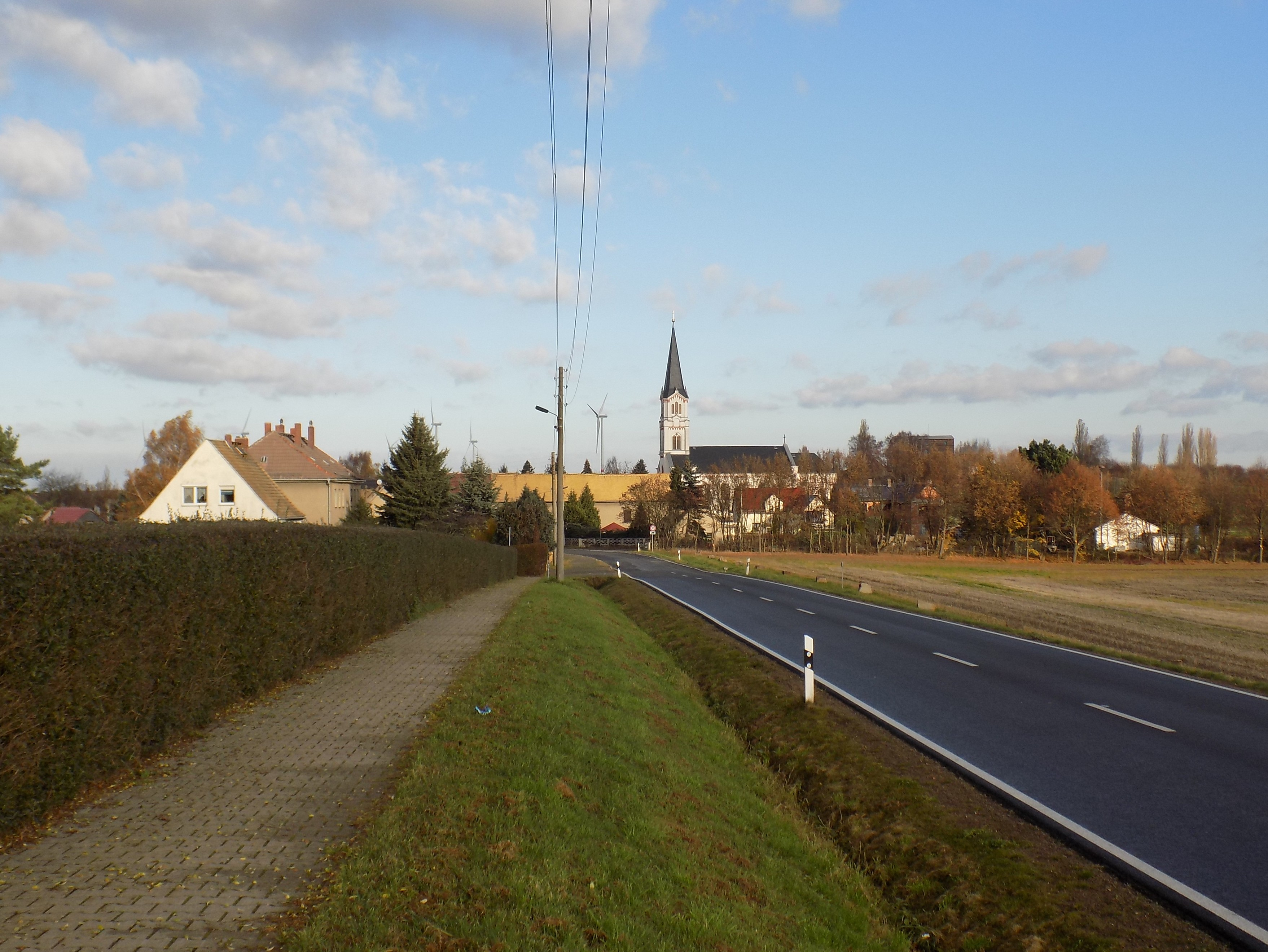 Ragewitz (Grimma, Leipzig district, Saxony) from the south